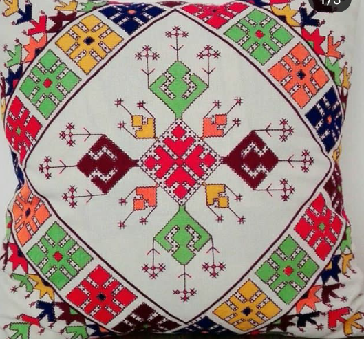 balochi doozi